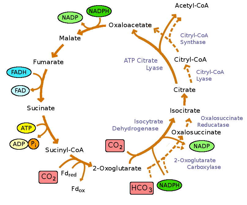 A pathway diagram of the reductive TCA cycle